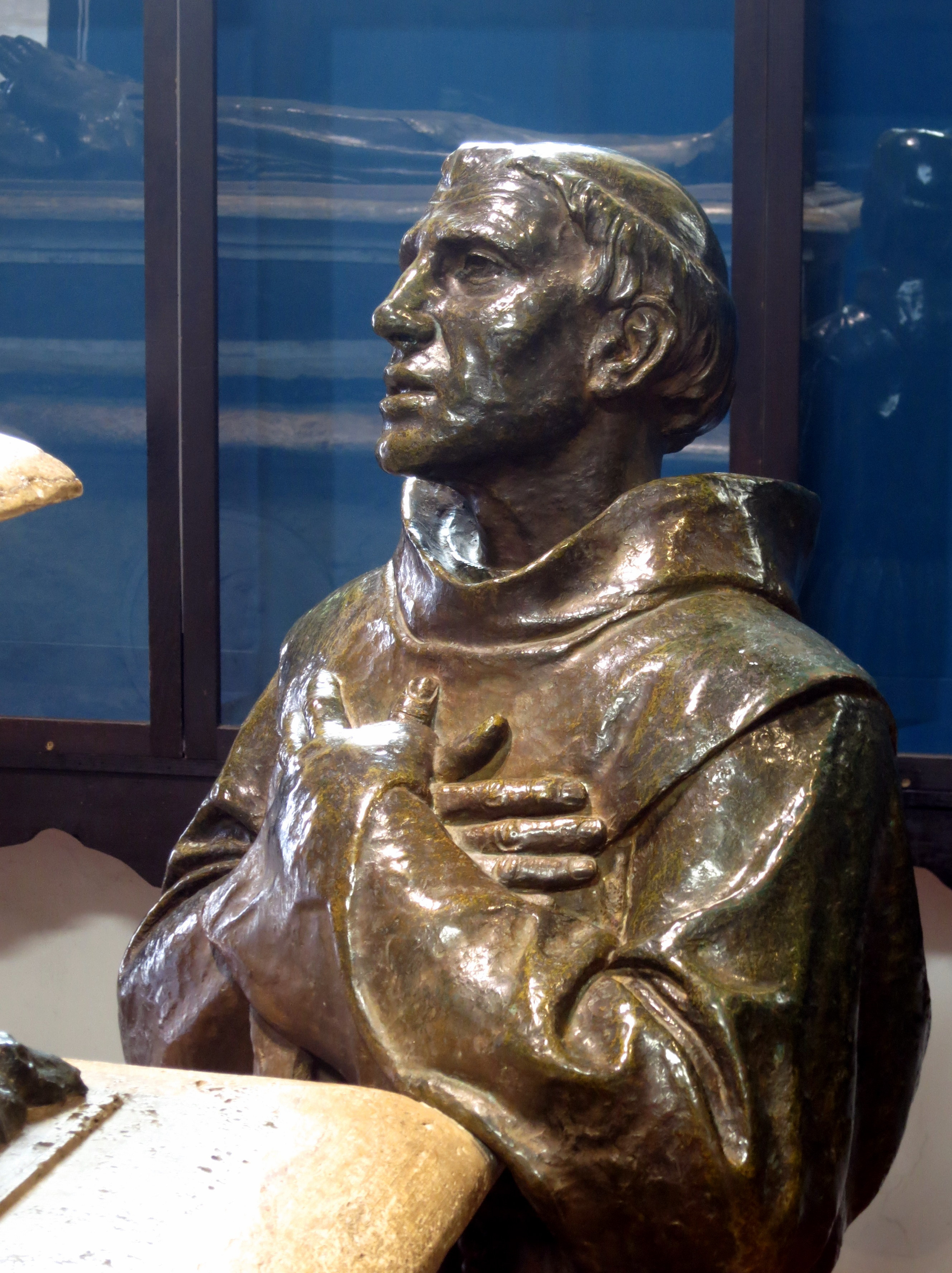 Mission San Carlos Borromeo de Carmelo (Carmel, CA) - Mora Chapel, cenotaph - Fray Fermín Lasuén; cenotaph artist: Jo Mora